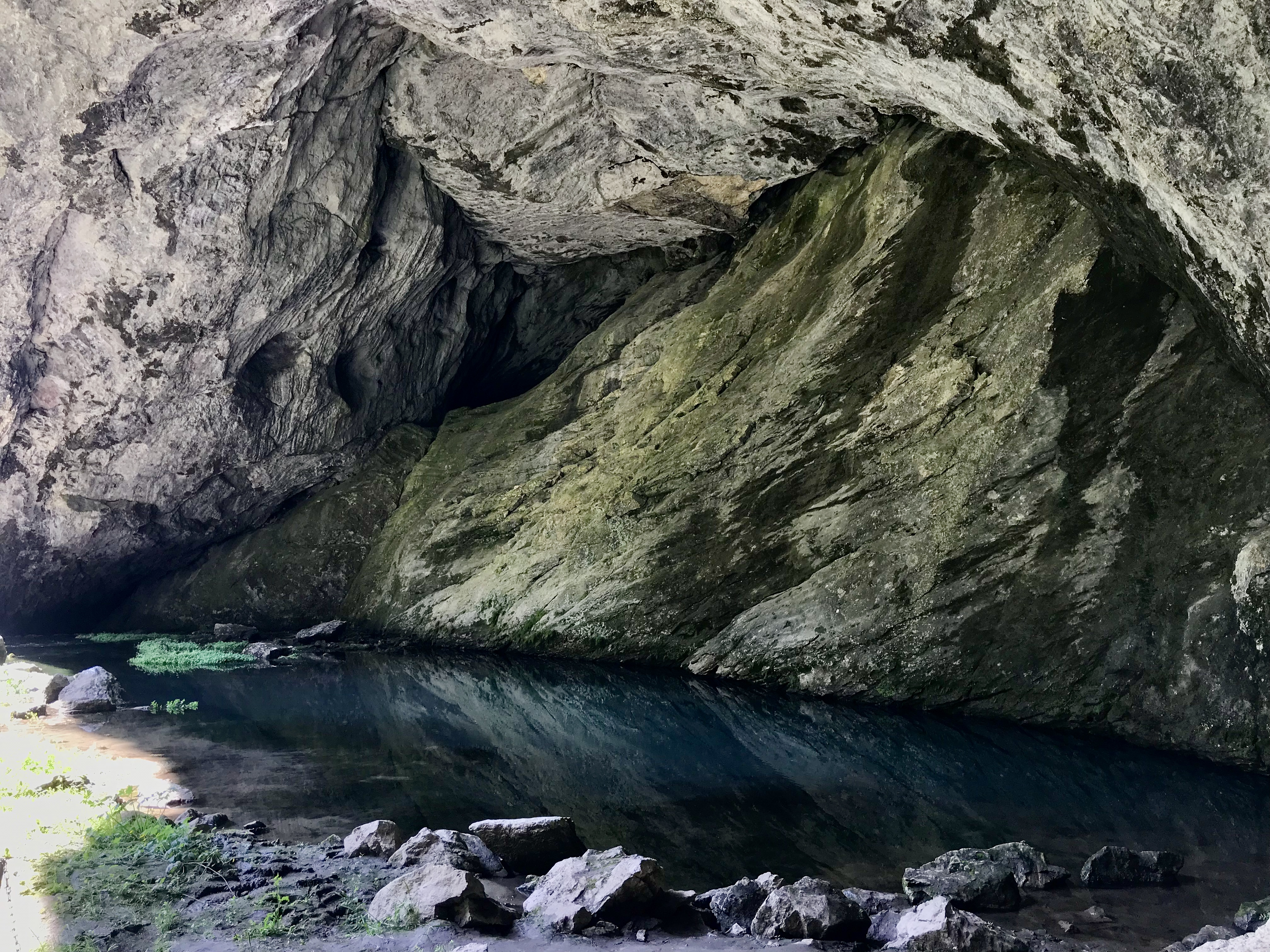 The Shulgan stream comes up through the earth forming a pool named Blue Lake. The lake is bottomless. Burzyansky district, Bashkortostan This image is related to the protected area of Russia number 0220101